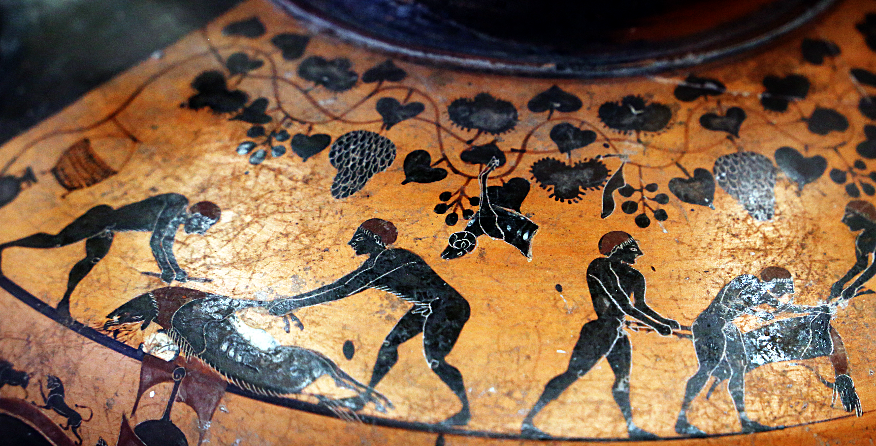 Detail from the Ricci Hydria, Etrurian Black-figure Hydria by the Painter of the Louvre E739, ca. 530 BCE, depicting the slaughtering of a sacrificial pig. The original photo was taken at the Villa Giulia (Rome) and uploaded by user:Sailko This version of the image has been cropped to remove the lower grey band, resized for deeper dpi, and has been white balanced.